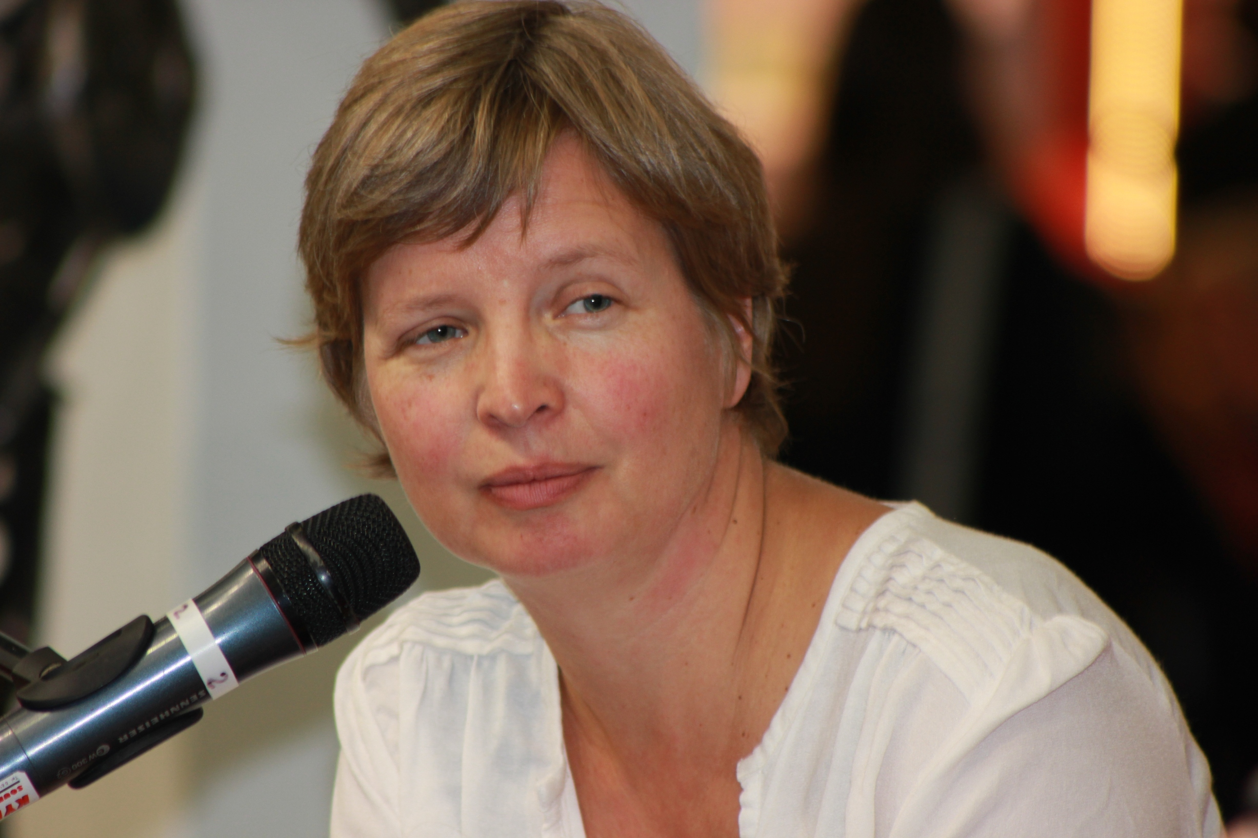 Jenny Erpenbeck, Frankfurt Book Fair 2012